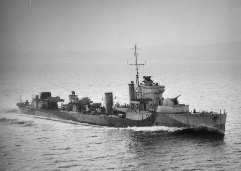 British destroyer HMS VERDUN underway.